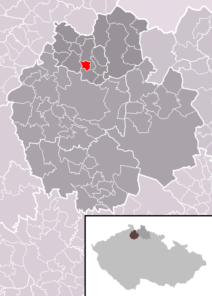 Location of Chotovice municipality within Česká Lípa District and administrative area of Nový Bor as a Municipality with Extended Competence.